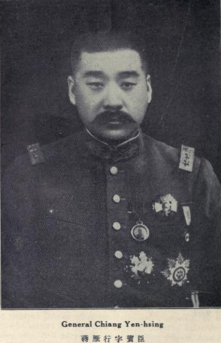 Jiang Yanxing, Binchen (1875 - 1941)